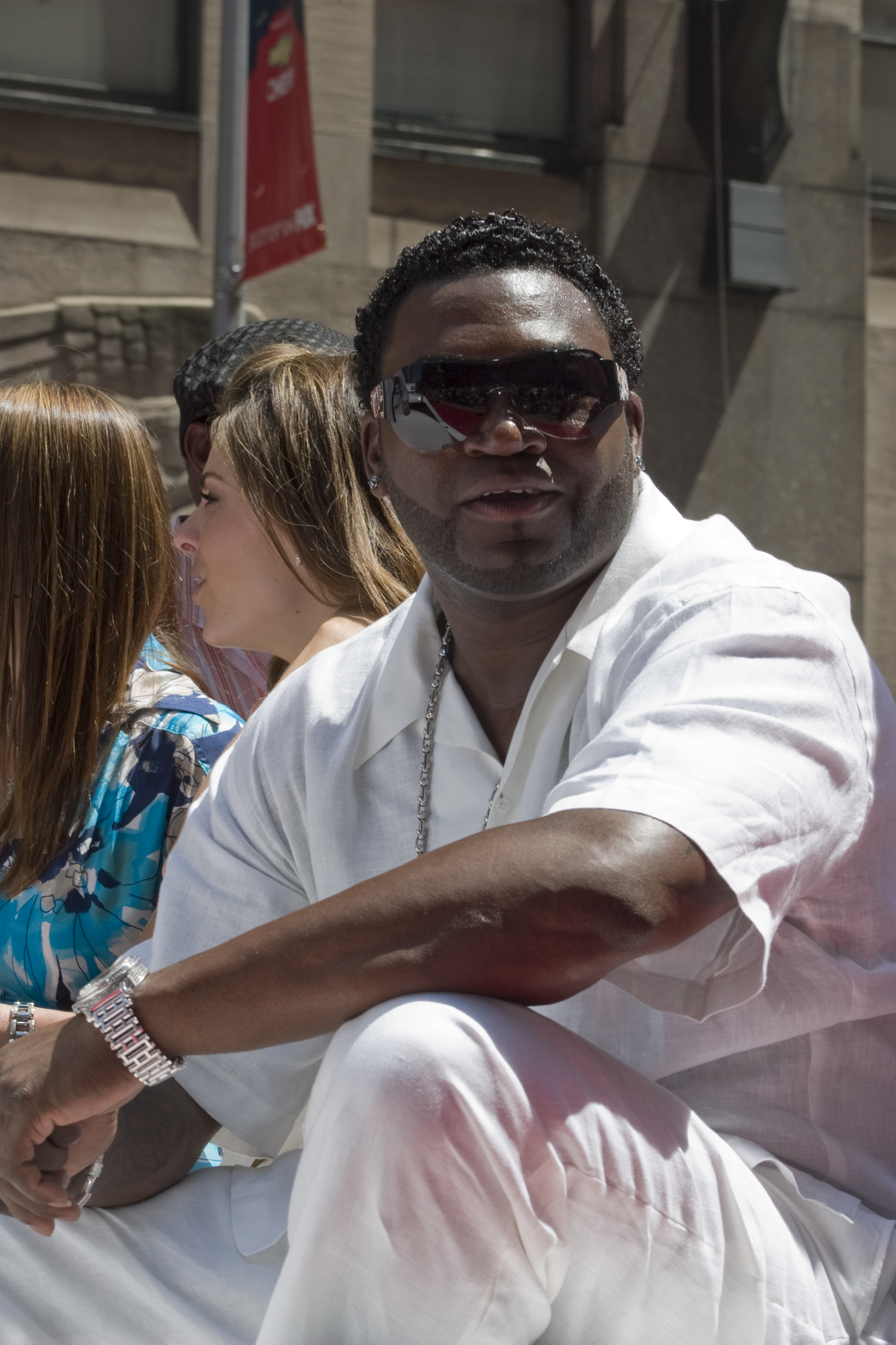 David Ortiz. © Rubenstein, photographer Martyna Borkowski